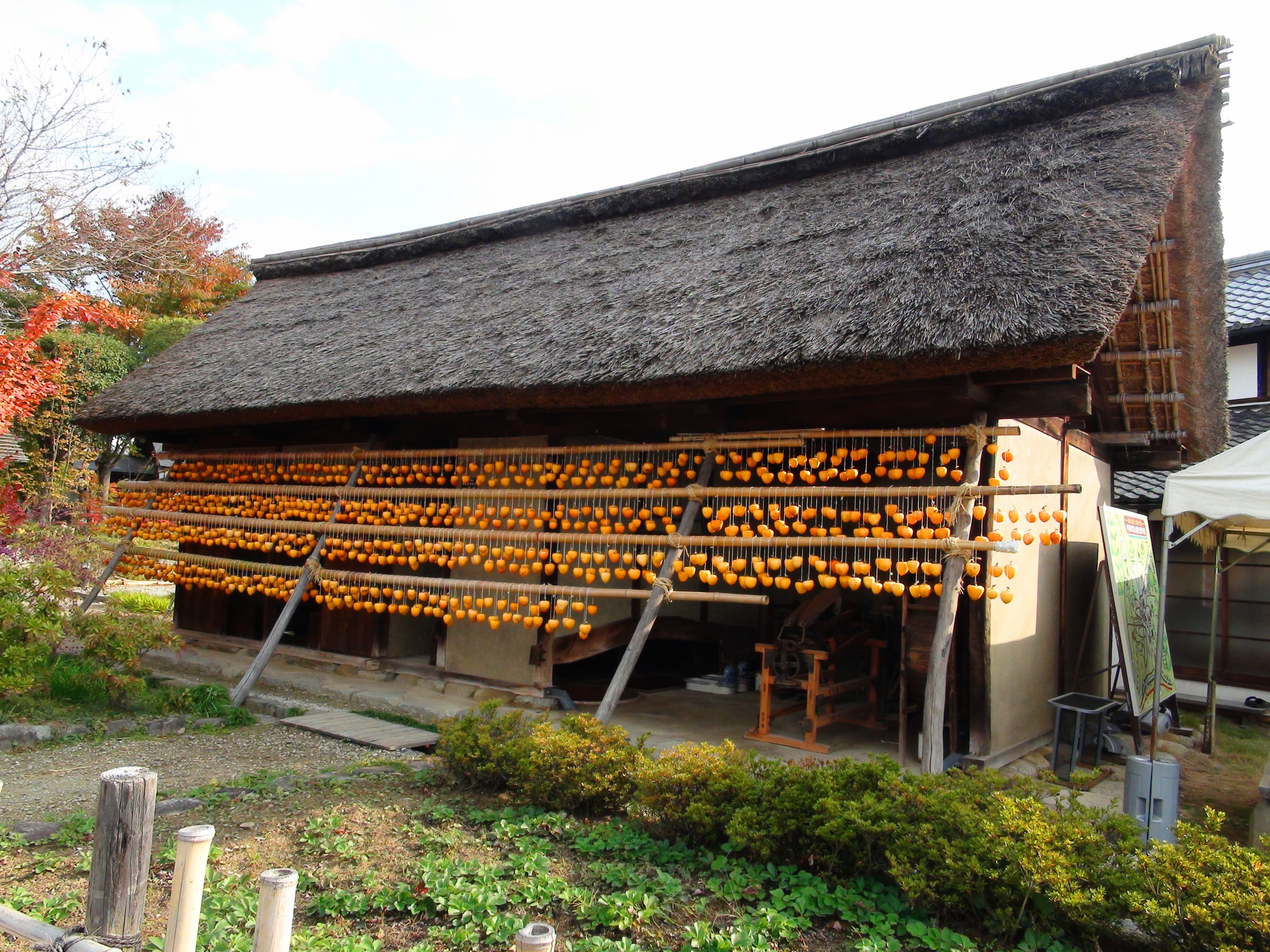 Barn of Kanzo yashiki (lit. licorice house), Koshu City, Yamanashi, Japan